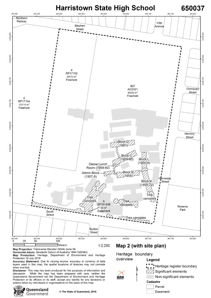 650037 - Harristown State High School - map 2 (2016)